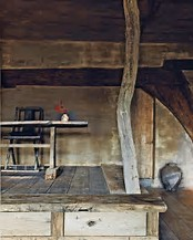 Vabi Sabi užuominos namų interjere